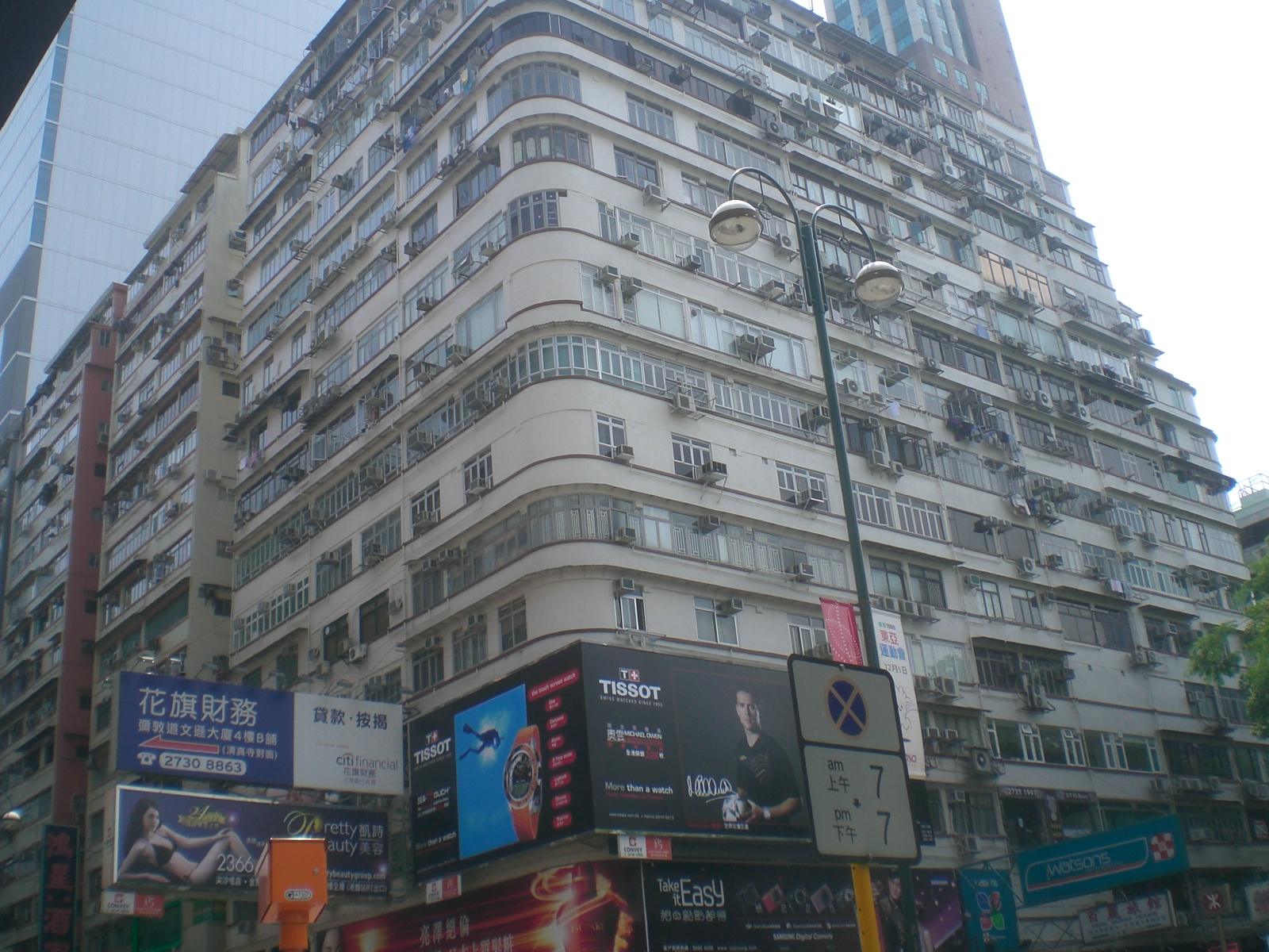 尖沙咀海防大廈